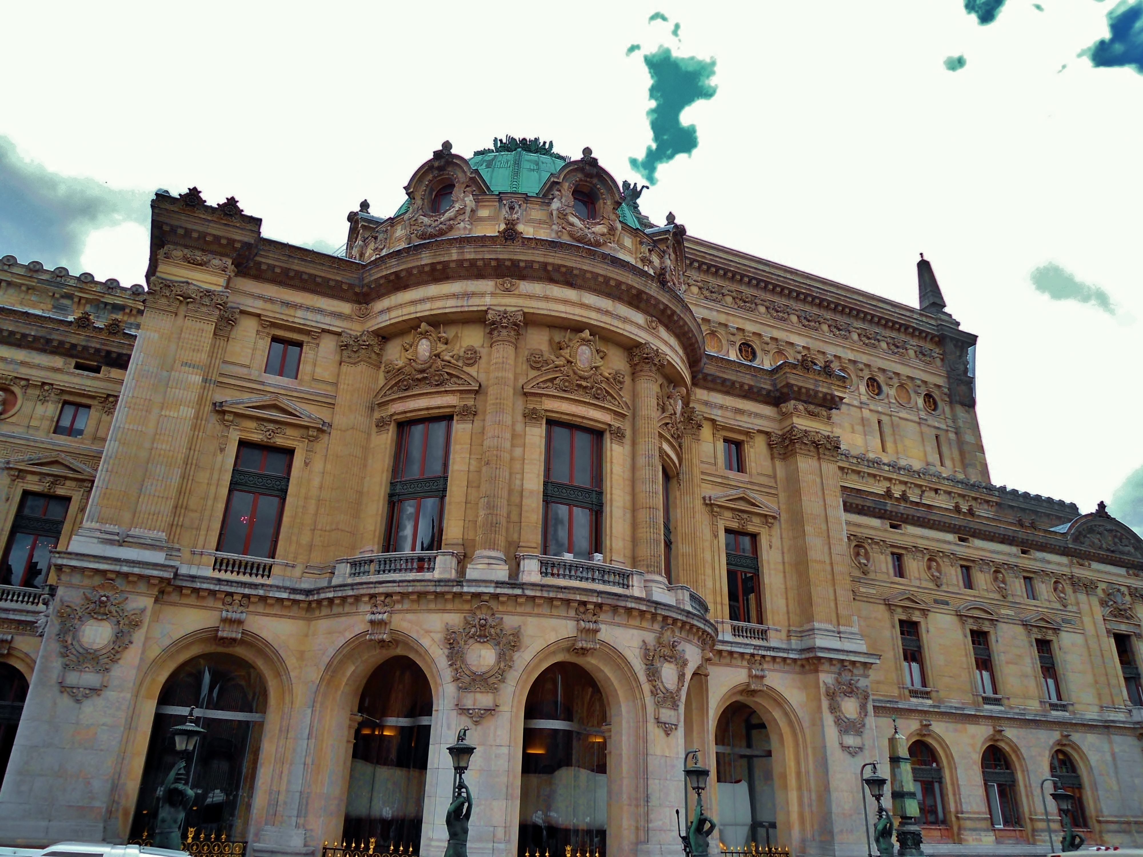 Opéra Garnier - Pavillon des Abonnés